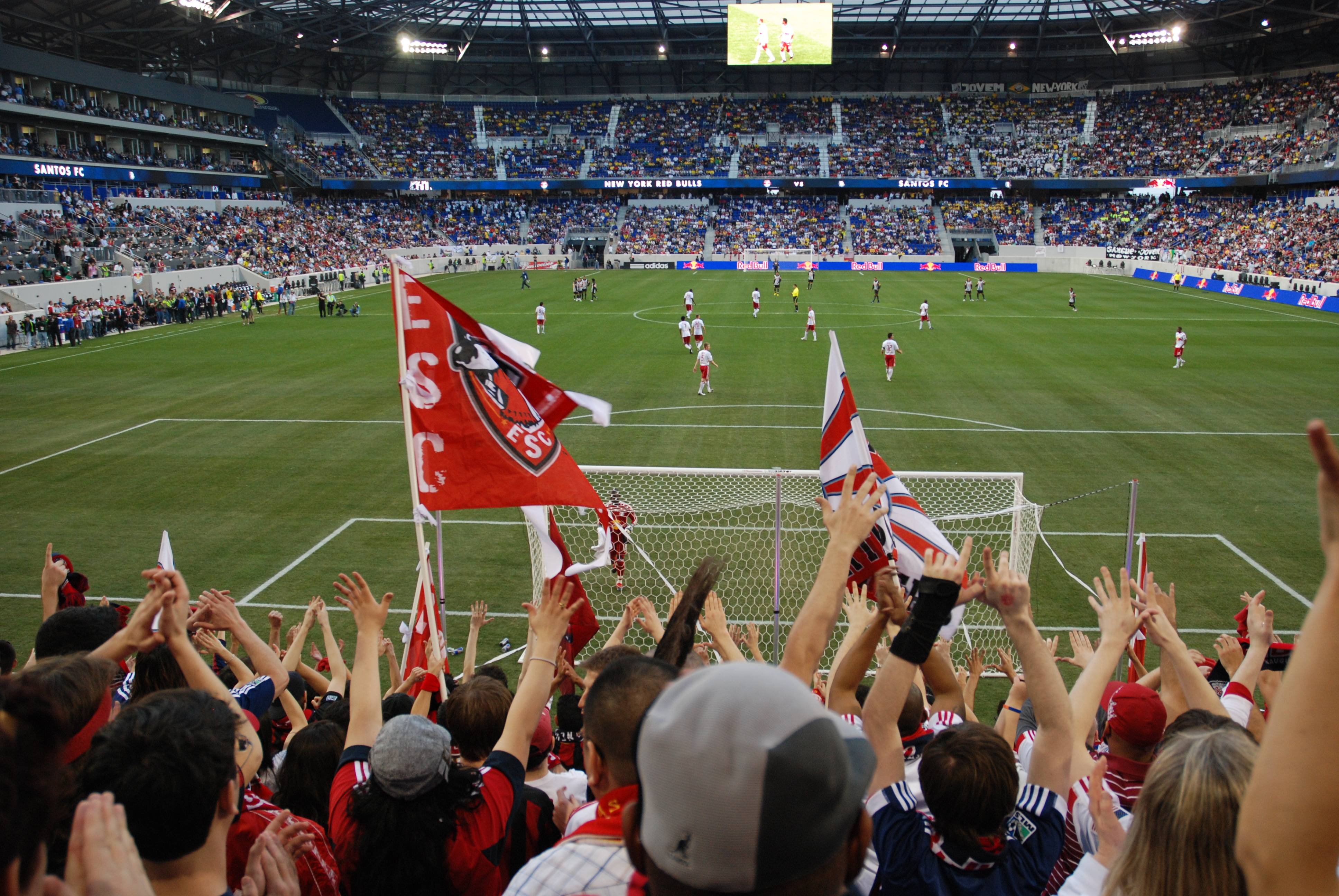 Empire Supporters Club at opening of Red Bull Arena.